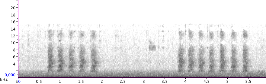 Sonogram of Aphelocoma californica Sound 2014-08-12.ogg. Voice of a Western scrub jay (Aphelocoma californica), recorded in Strawberry, Marin County, California. Created with Raven Lite from the Cornell Lab of Ornithology.